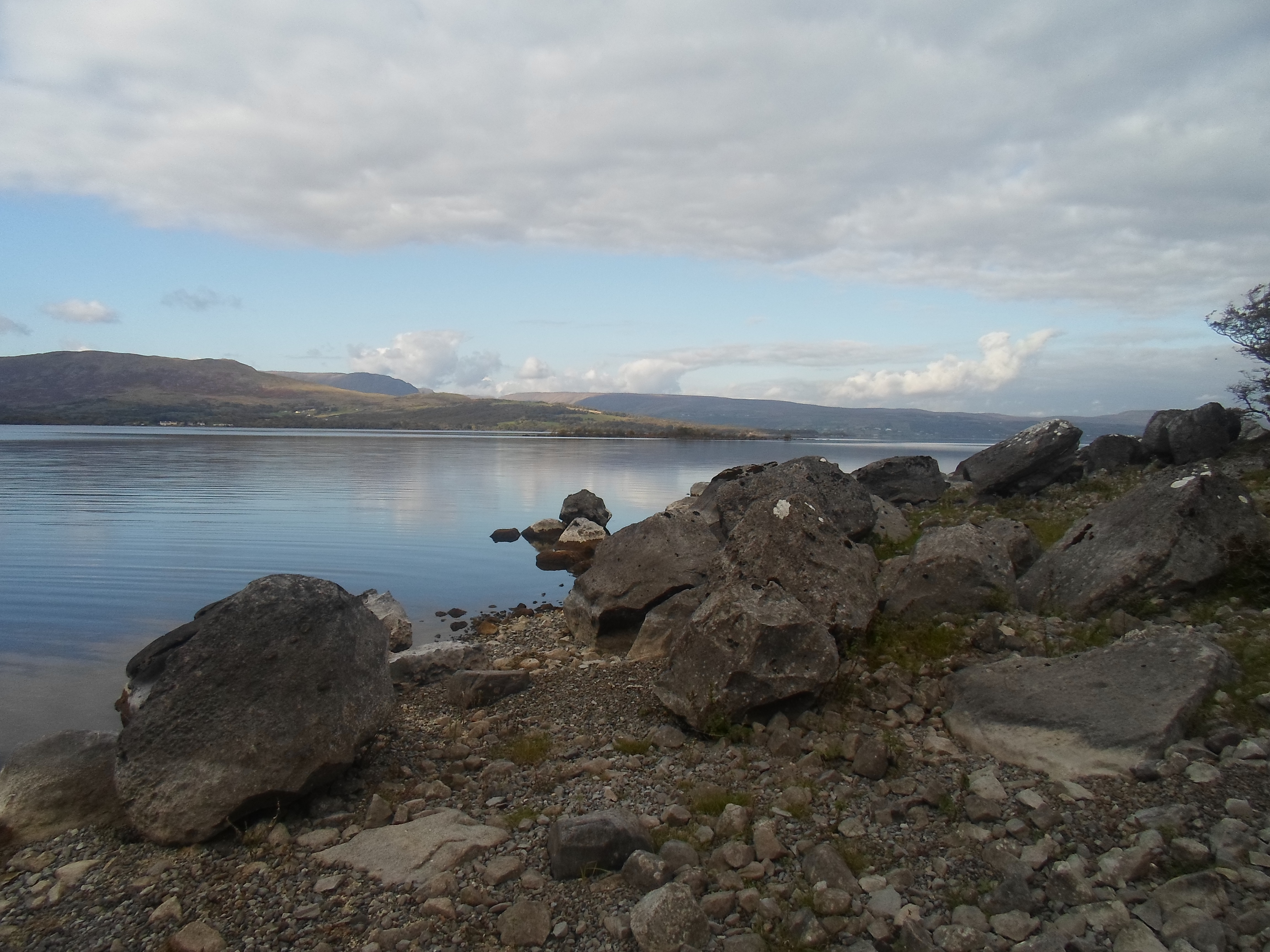 Lake in POEC, Clonbur, Co. Galway